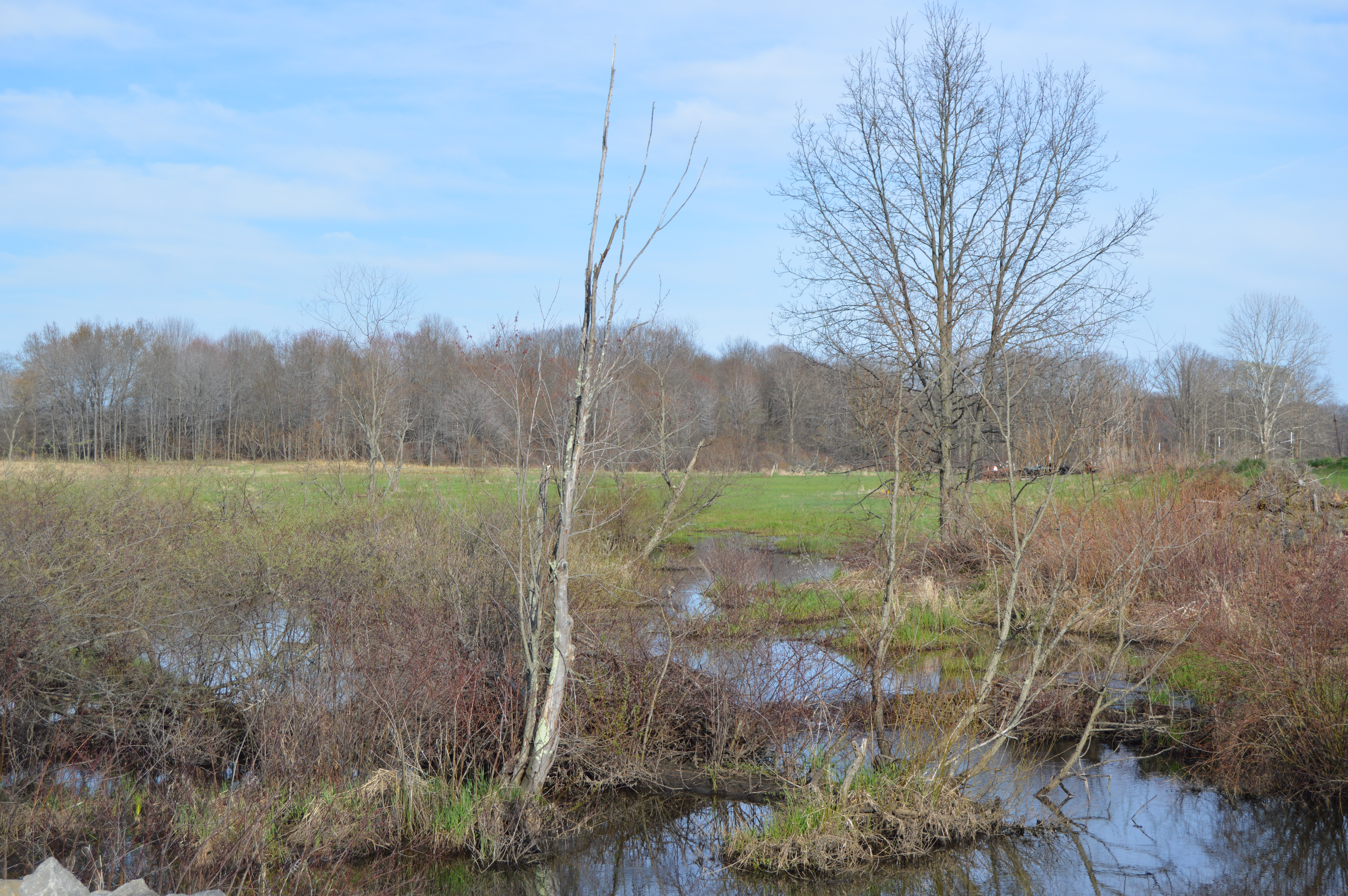 Looking upstream along Swamp Run from Airport Road south of Grove City in Pine Township, Mercer County, Pennsylvania, United States.